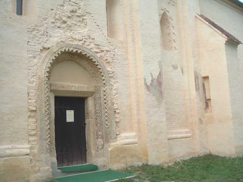 The entry of the R.C. Church in Őriszentpéter (13th c.), Hungary